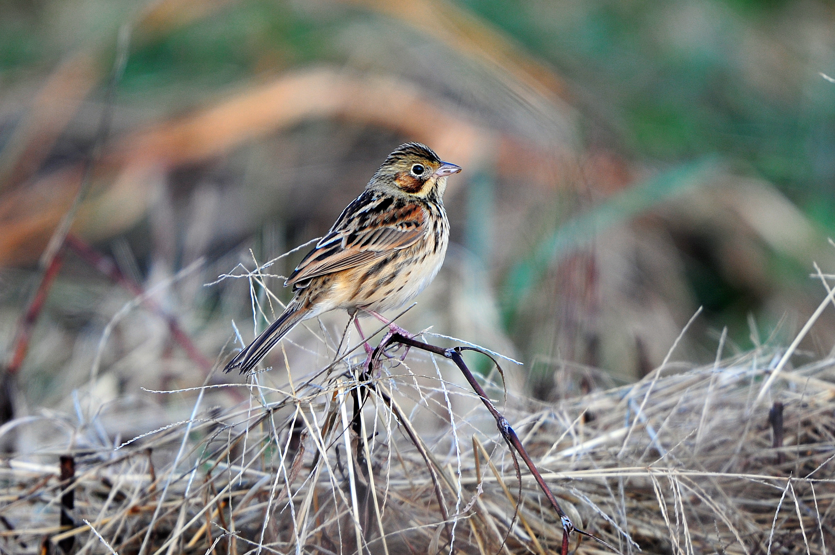 Chestnut-eared Bunting (Emberiza fucata, also called Grey-headed Bunting)